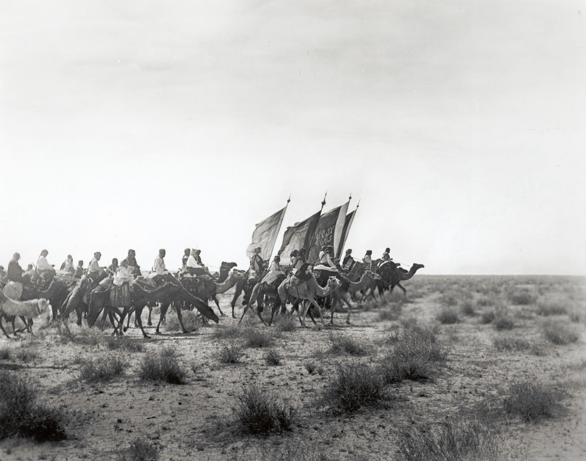 National Museum Riyadh